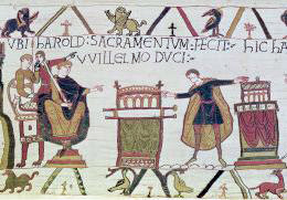 A scene from the Bayeux Tapestry with the Latin legend "HAROLD SACRAMENTUM FECIT WILLELMO DUCI" ("Harold makes his oath to William the Duke"). It depicts King Harold II or Harold Godwinson, the last Anglo-Saxon king of England, making an oath of fealty to William, Duke of Normandy (William the Conqueror), by touching two altars containing relics of saints. It was the breaking of this purported oath which caused the Norman Conquest of England. The scene occurred at "Bagia" (Bayeux), as the previous scene in the Tapestry states.